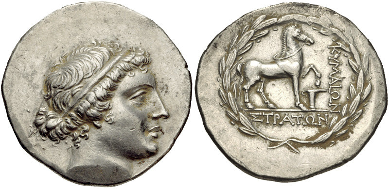 Kyme, Aeolis, 165-140 BC. Silver tetradrachm (31mm, 16.71 g). Stephanophoric type. Straton, magistrate. Head of the Amazon Kyme right, wearing tainia / Horse prancing right; one-handled cup below raised foreleg, ΣTPATΩN below; all within wreath.